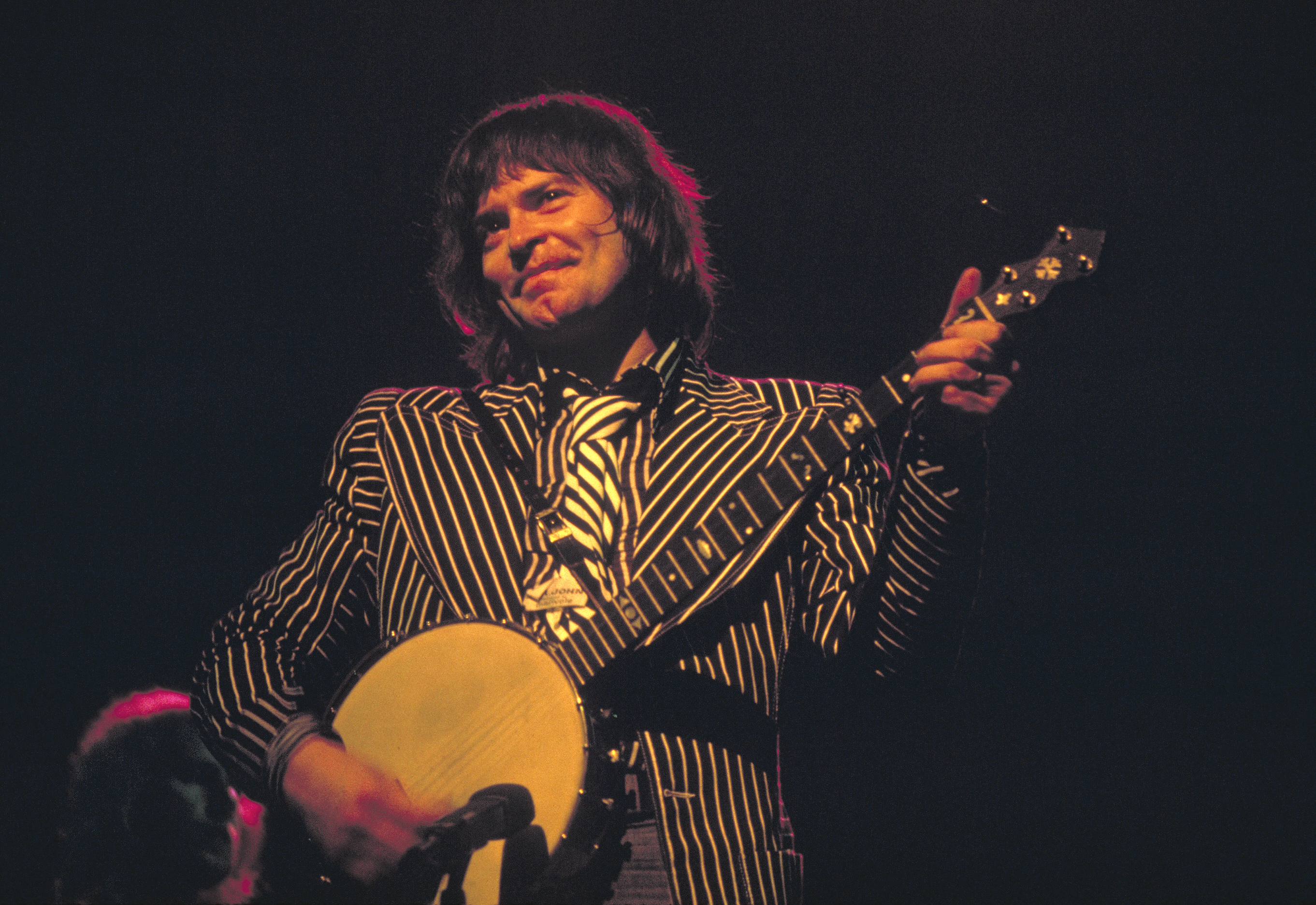 Chris Copping, British rock musician, with Procul Harum at time of photo